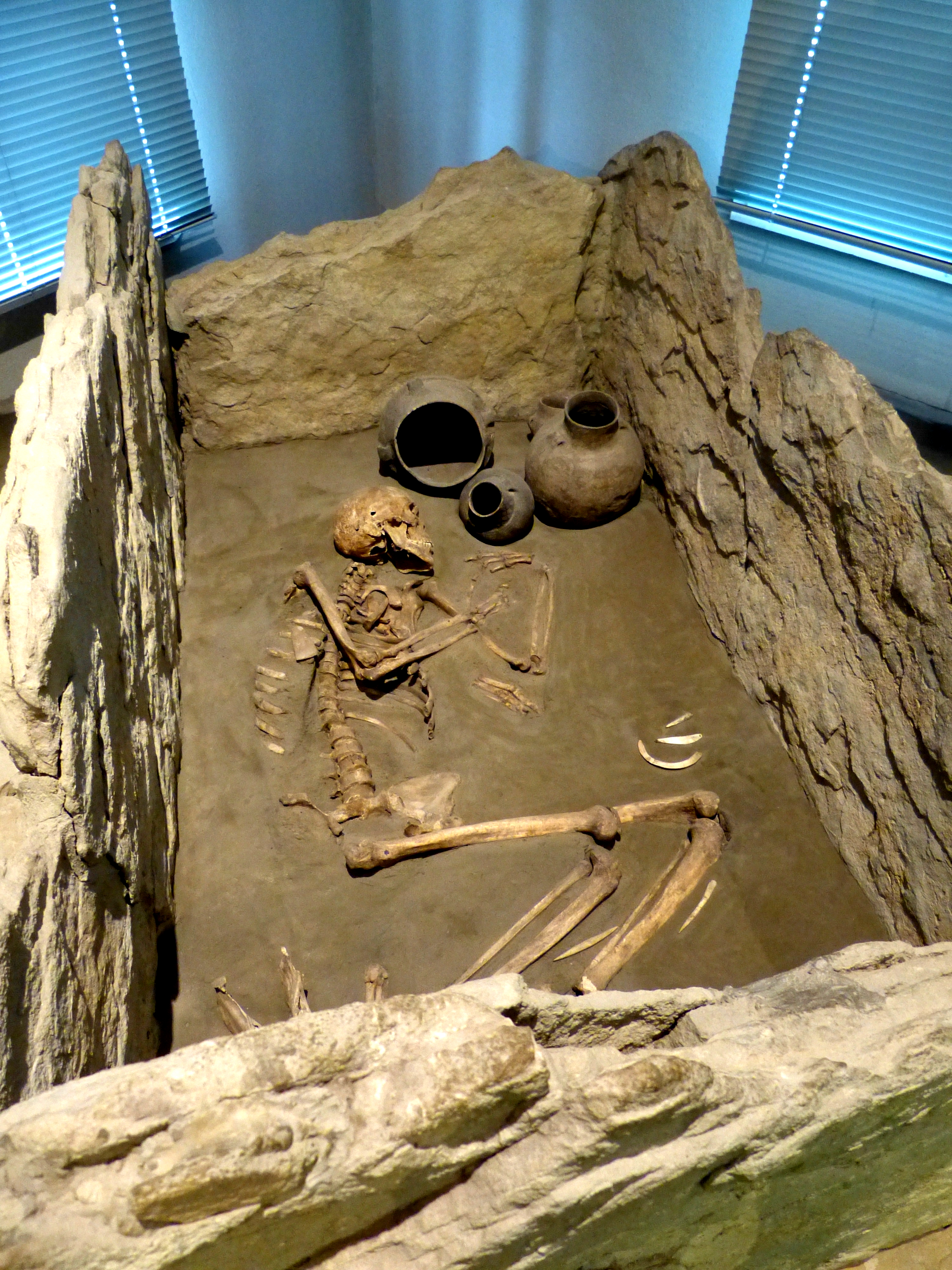 Weimar ( Thuringia ). Museum for Prehistory in Thuringia: Grave of the Globular Amphora Culture ( 4th millenium BC ) at Derfflinger hill in Kalbsrieth.